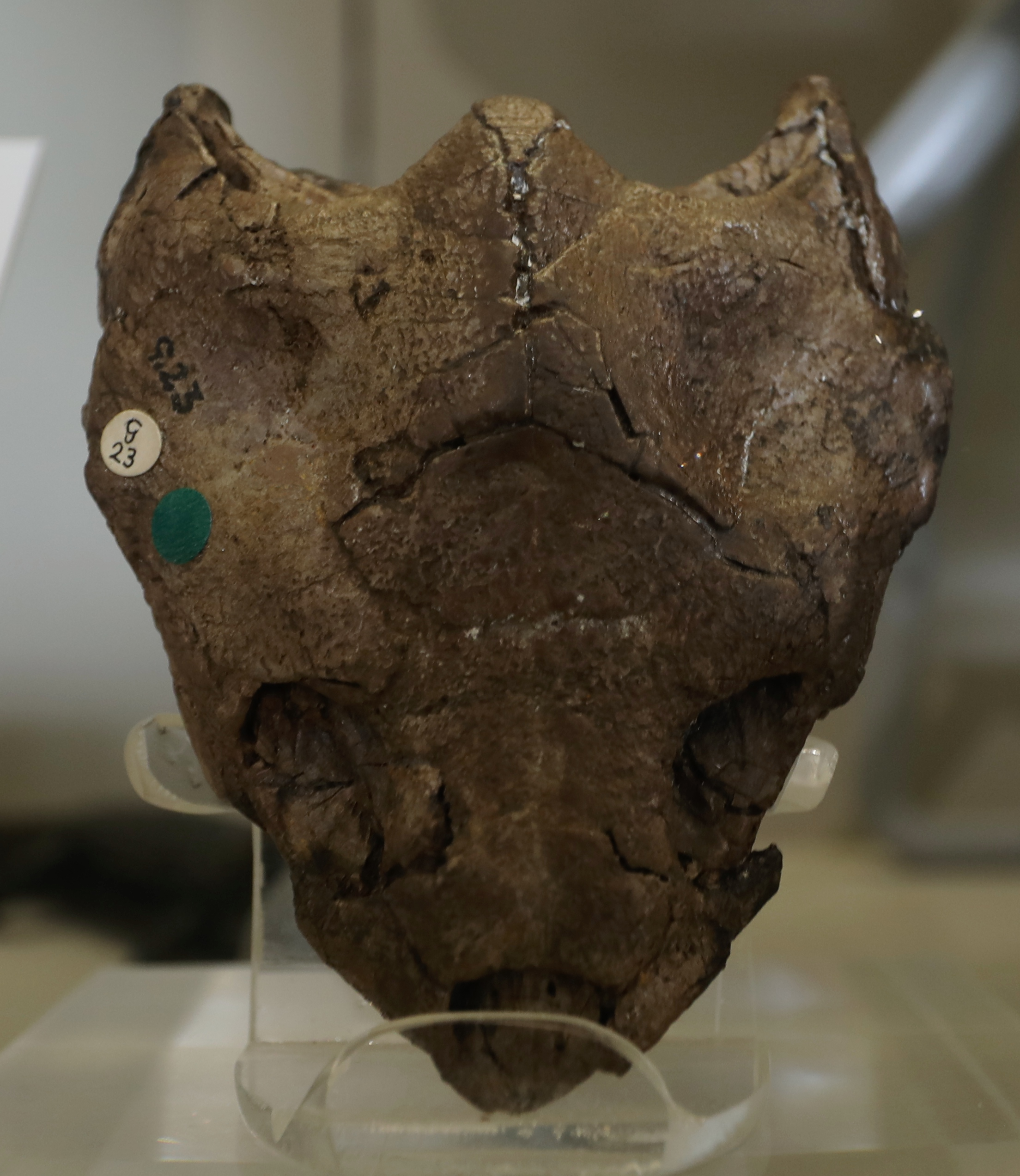 Photo of a fosilised skull of a Dorsetochelys en extinct turtle